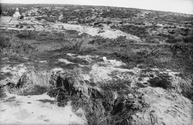 Looking across the Nek from the Australian trenches to Baby 700. A Turkish monument is in the left background and a whitened skull and bones are in the centre ground. One of a series of photographs taken on the Gallipoli Peninsula under the direction of Captain C E W Bean of the Australian Historical Mission, during the months of February and March, 1919.